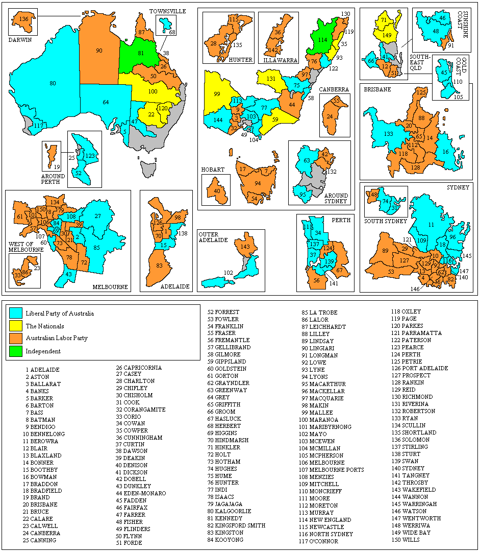 Map of electorates in Australia after the 2007 federal election.